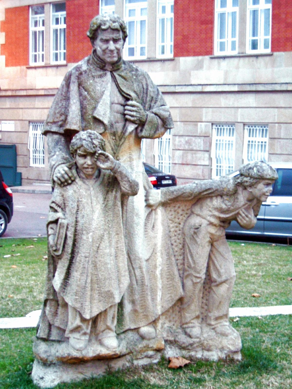 Estatua de Don Bosco frente a la Parroquia de María Auxiliadora (PP Salesianos) en Orense (Galicia, España)